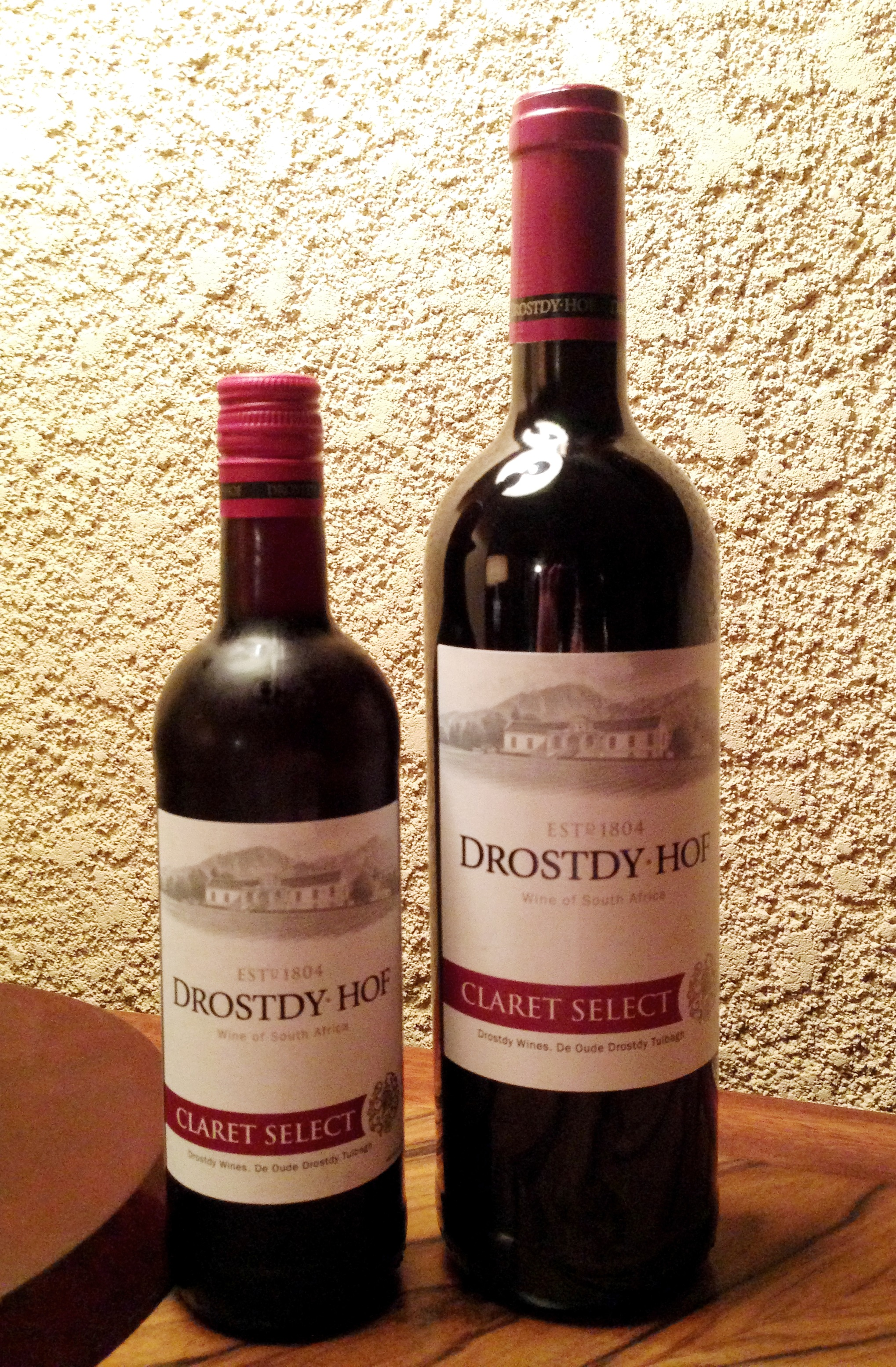 Two bottles of Selected Claret from South Africa